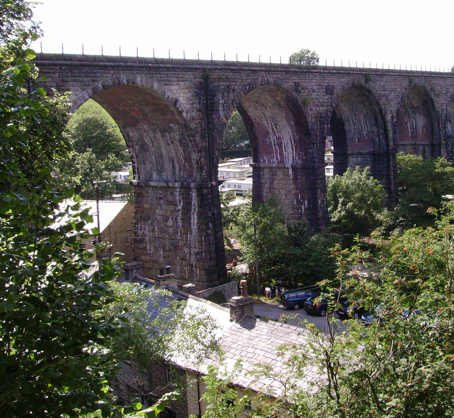 Ingleton in the Yorkshire Dales, United Kingdom